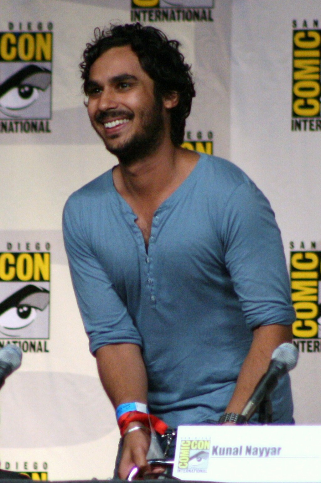 Kunal Nayyar